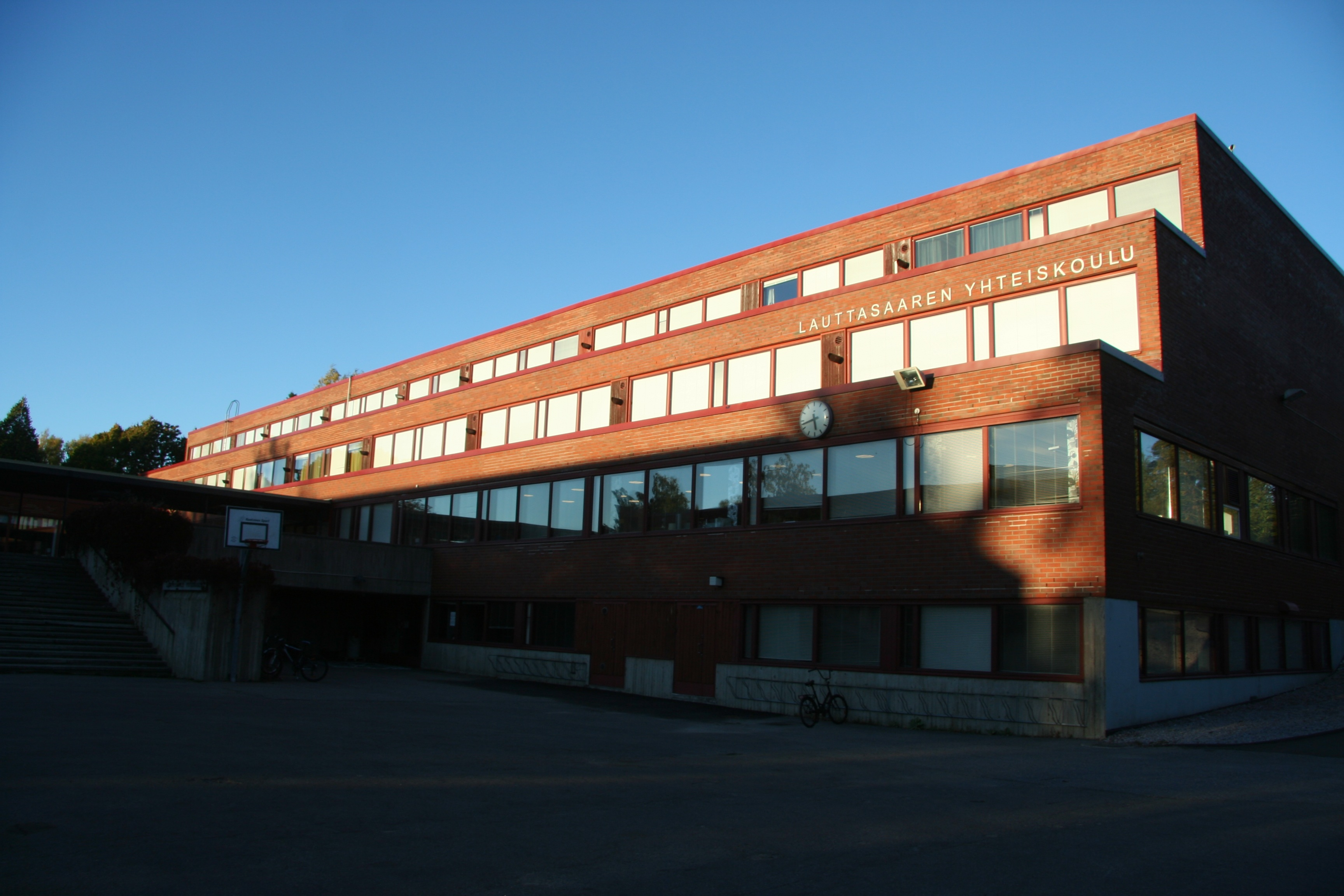 A school in Lauttasaari, Helsinki, Finland